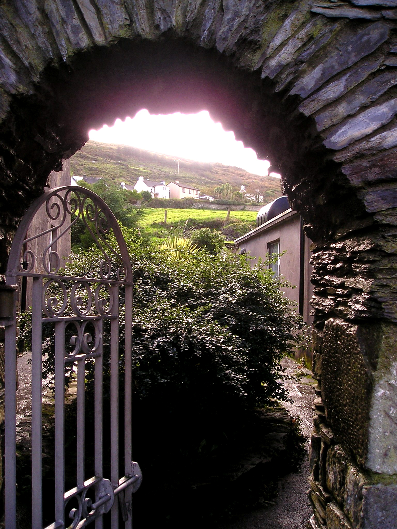 Gate in downtown Cahirciveen